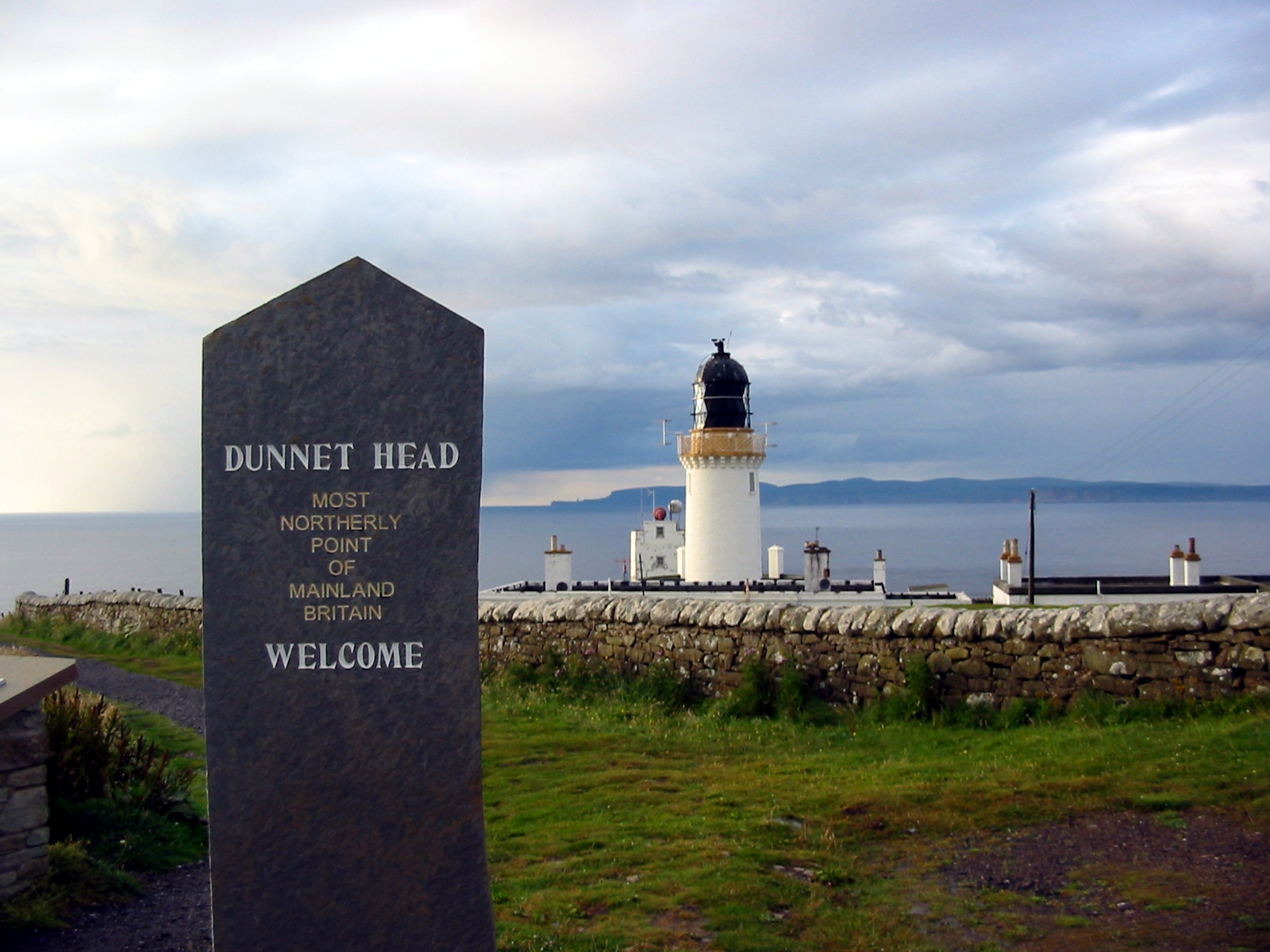 Dunnet Head, Scotland. Photo by E Asterion u talking to me? 22:51, 11 June 2006 (UTC)